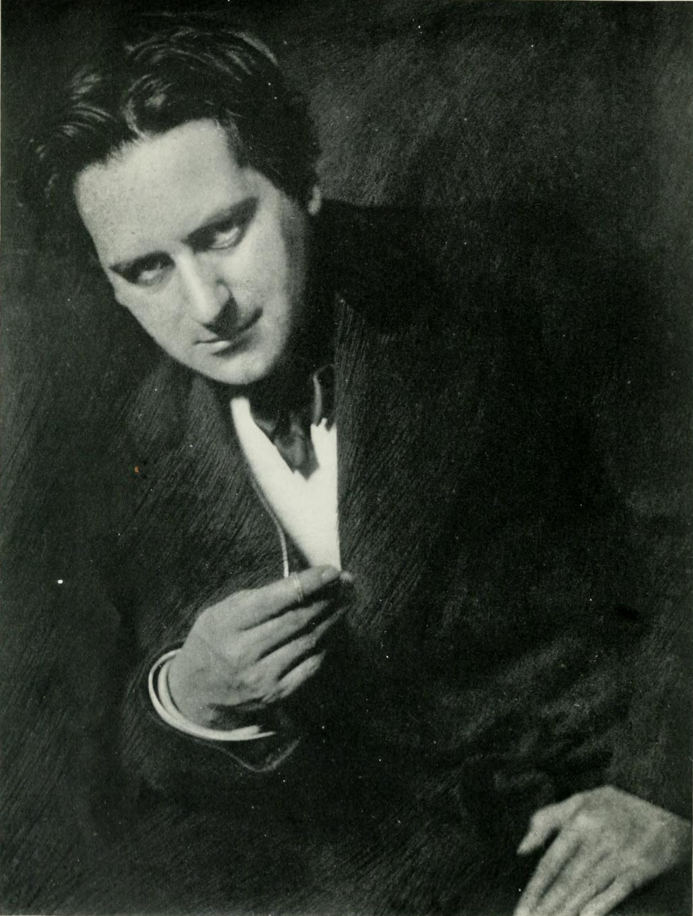 Self-portrait photograph of actor and photographer Cavendish Morton